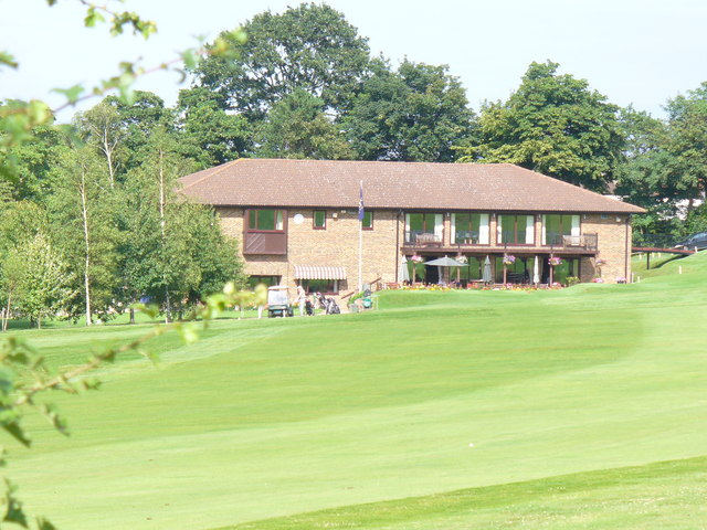 The Nineteenth Hole Clubhouse at the Goring and Streatley Golf Club downland course.